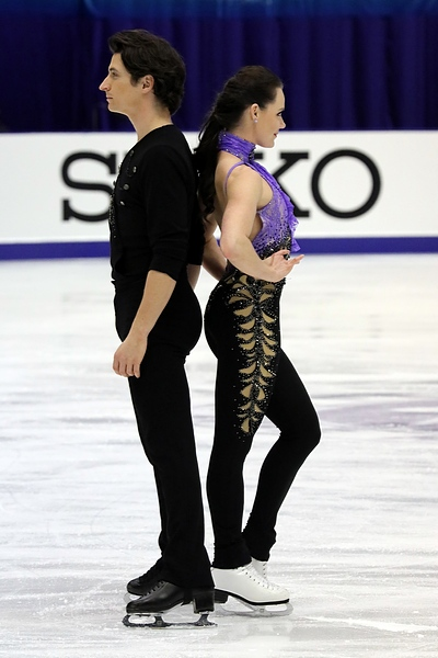 Tessa Virtue and Scott Moir at the 2016 NHK Trophy